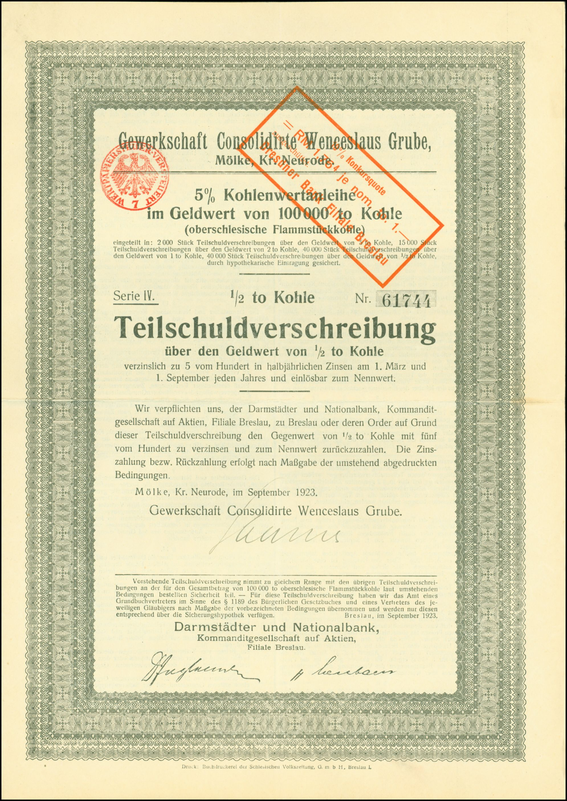 Bond of the Gewerkschaft Consolidirte Wenceslaus Grube, issued September 1923